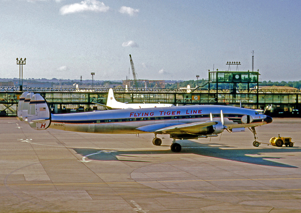 Lockheed L-1049H Super Constellation N6918C of Flying Tiger Line at London Gatwick in 1964